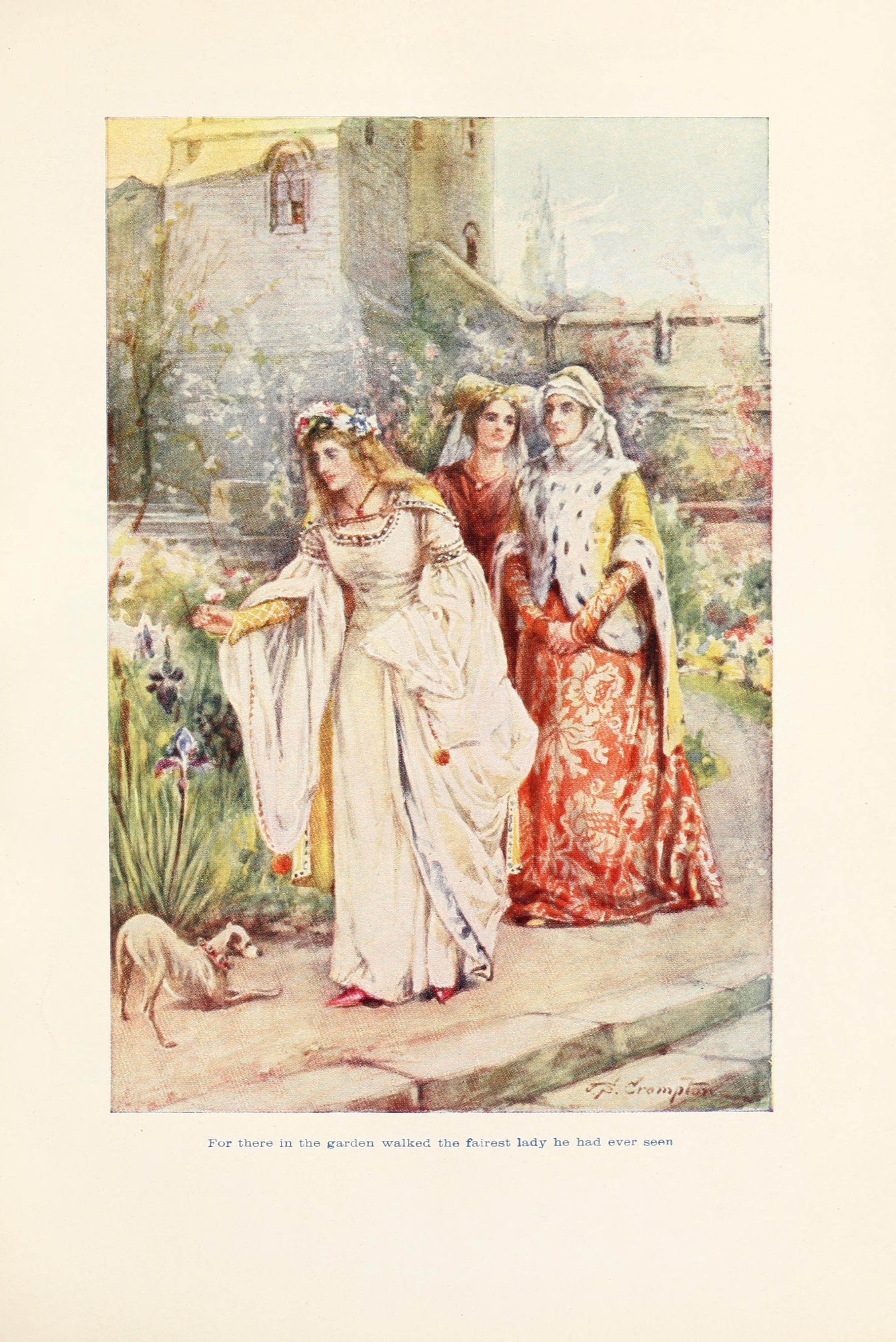 Scotland's story : a history of Scotland for boys and girls by Marshall, H. E. (Henrietta Elizabeth), b. 1876 Published 1907 SHOW MORE List of Kings from Duncan I.: p. 419-421 Publisher London : T.C. & E.C. Jack Pages 496 Possible copyright status NOT_IN_COPYRIGHT Language English Digitizing sponsor MSN Book contributor New York Public Library Collection newyorkpubliclibrary; americana Full catalog record MARCXML [Open Library icon]This book has an editable web page on Open Library.